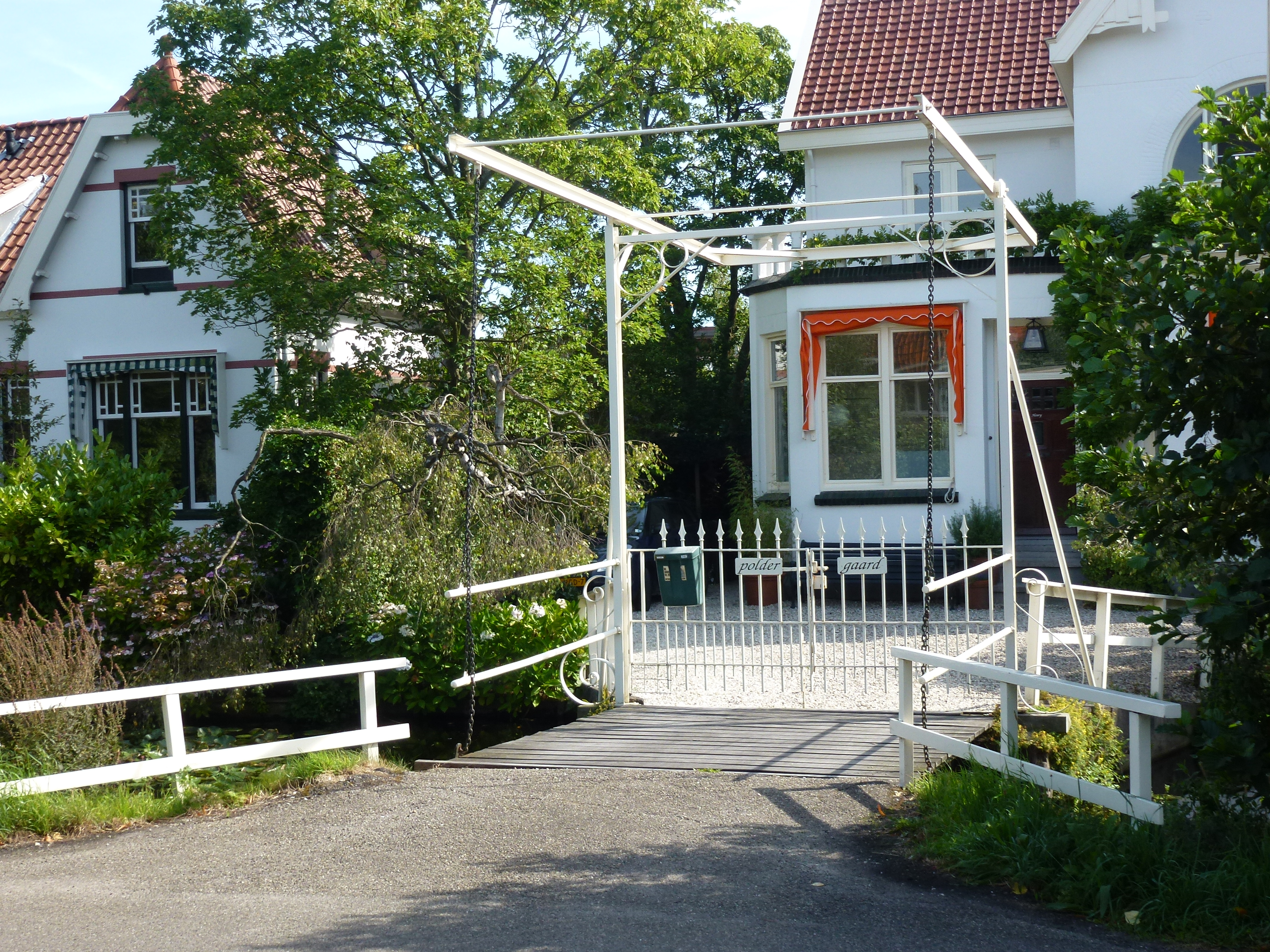 Drawbridge in Gouda